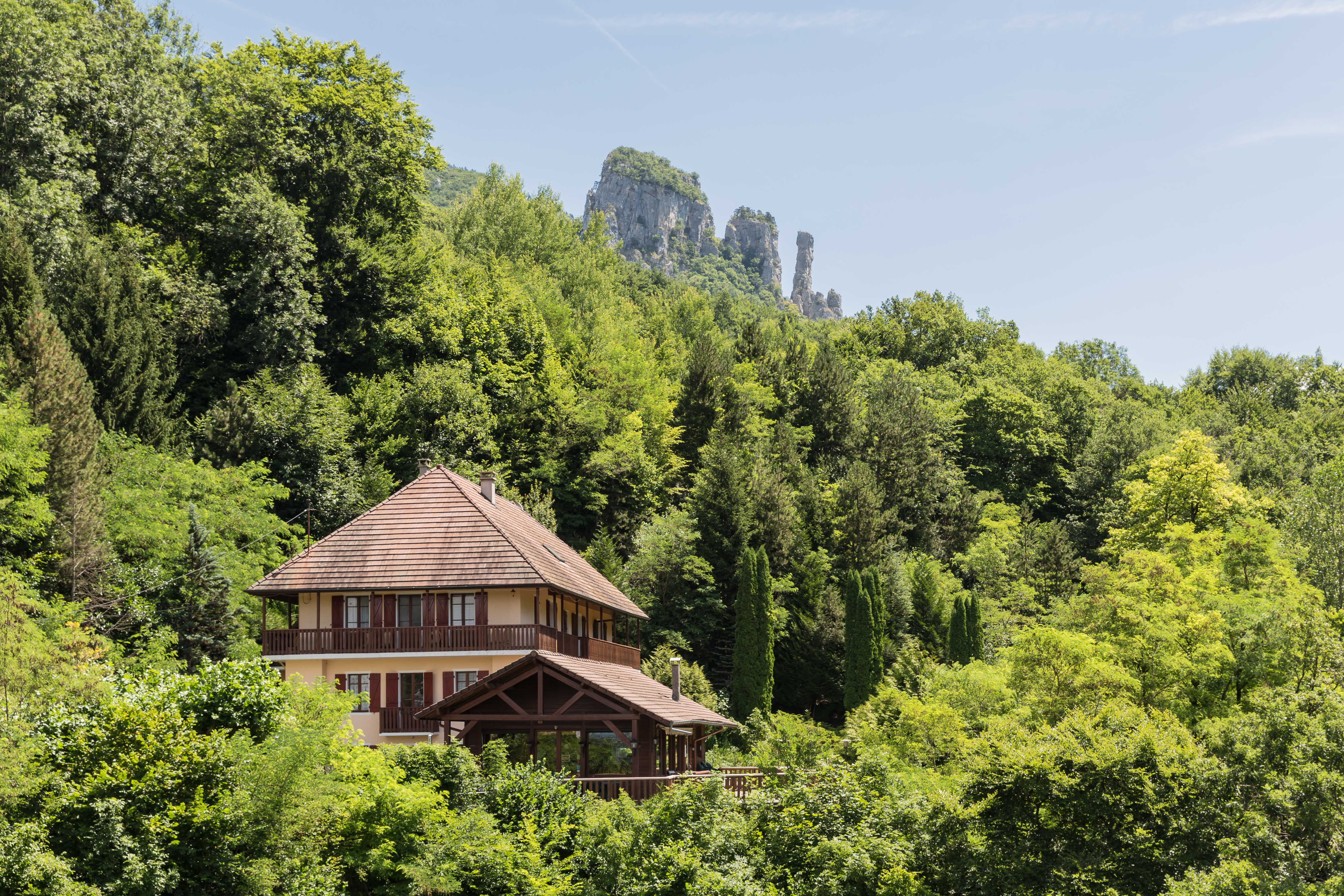 Hotel Restaurant Aux Gorges du Chéran and west view of the Saint-Jacques Towers on the Semnoz in the background, from the pont de l'Abîme in Cusy, France.